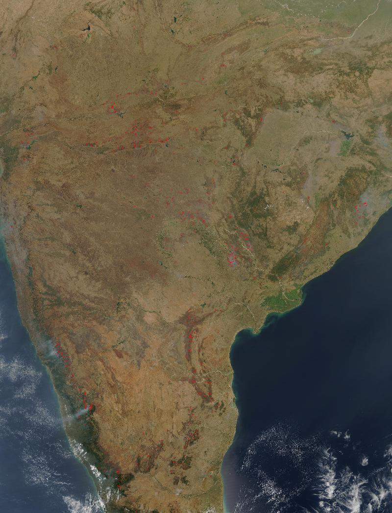 Satellite image of Deccan Plateau